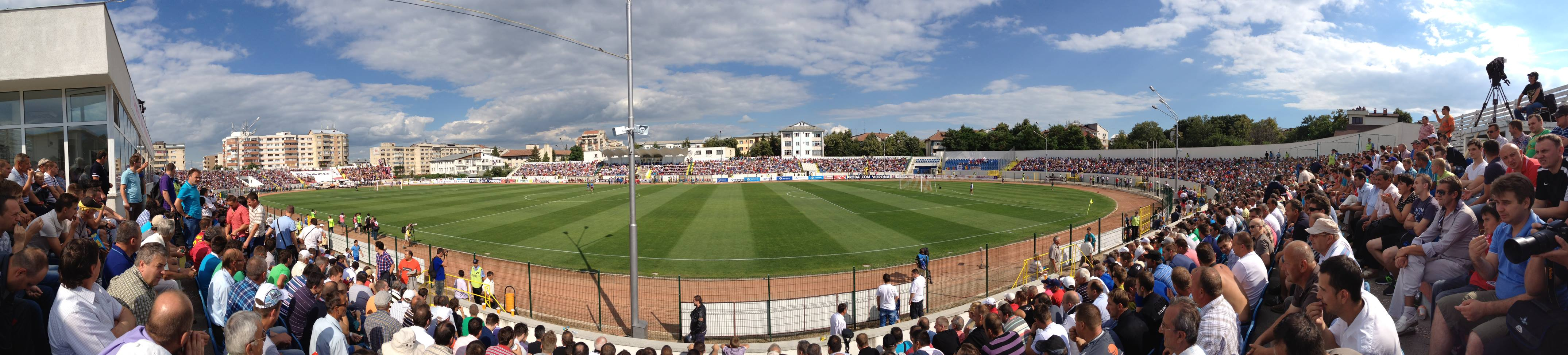 FC Botosani Stadium on matchday